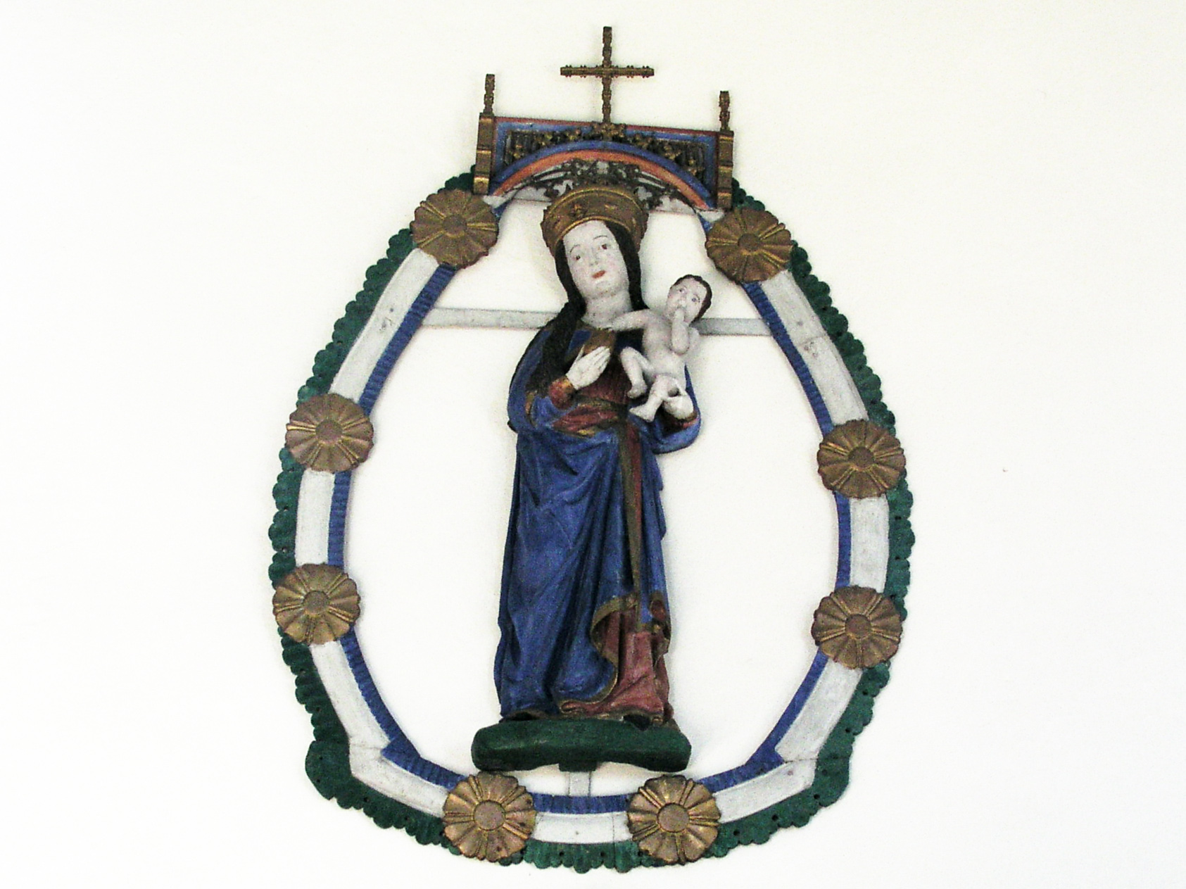 Alböke kyrka / Alböke church. Madonna. Öland, Borgholm. The picture was taken the 4rd of August 2005 by Håkan Svensson (Xauxa)